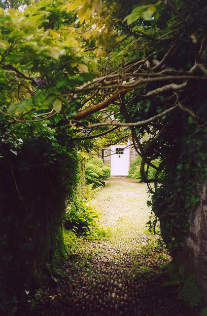 Rhiw: Plas yn Rhiw. Manor house and garden on the Llŷn Peninsula, cared for by the National Trust